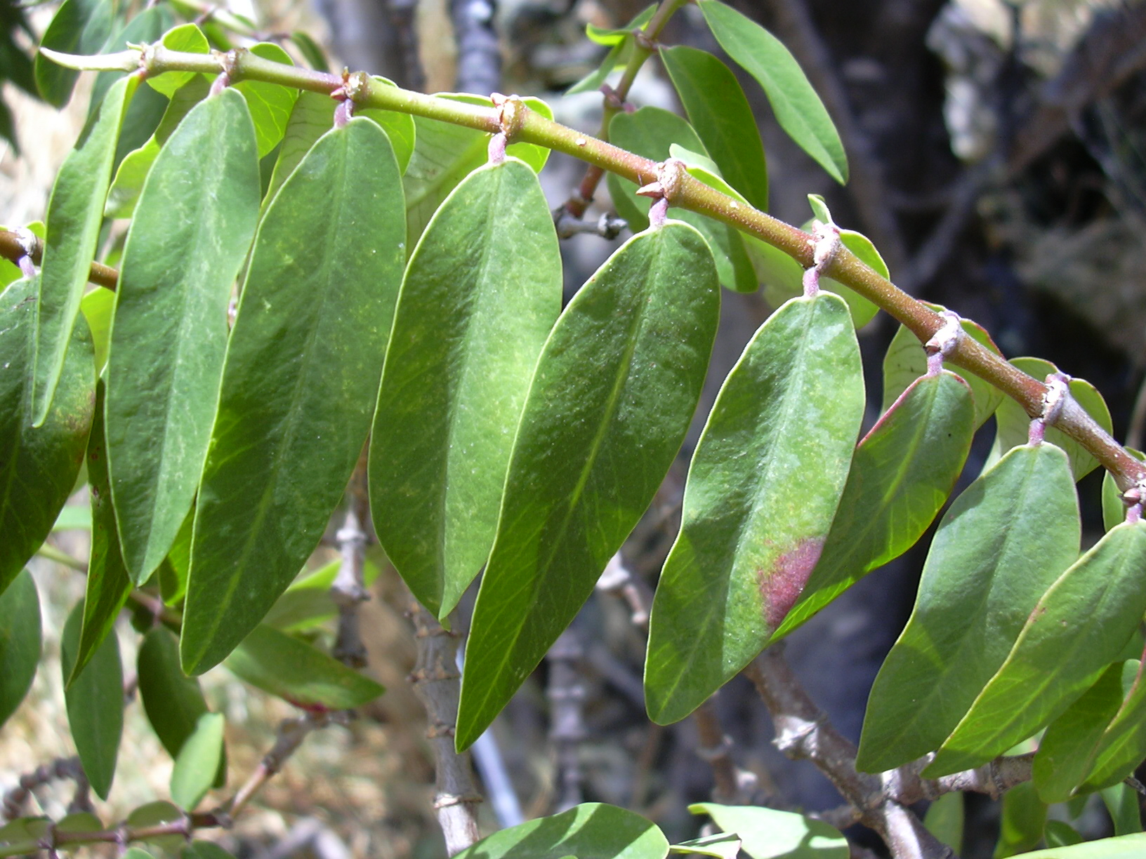 Chamaesyce olowaluana (leaves). Location: Hawaii, Puu Mali